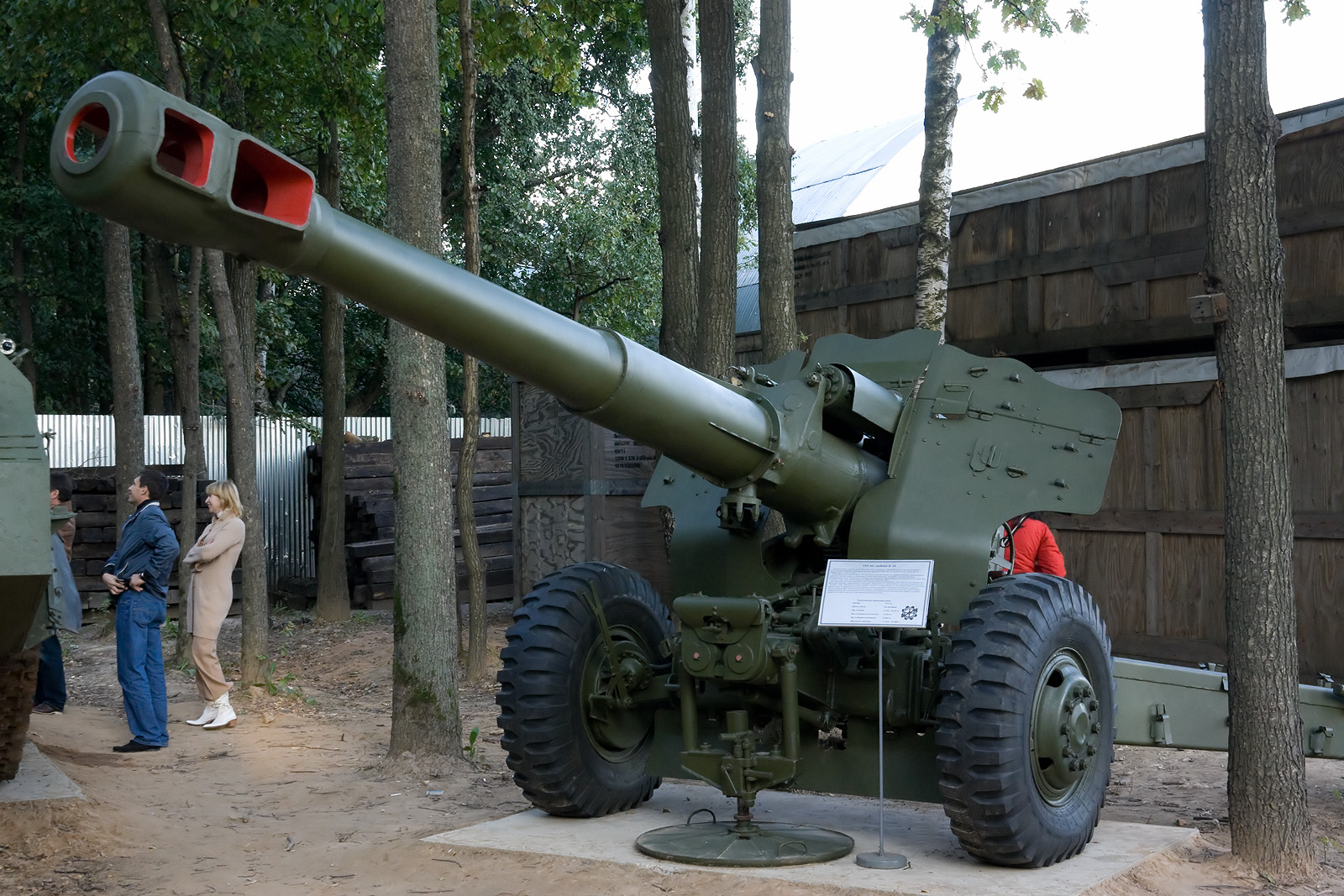 Howitzer D-20